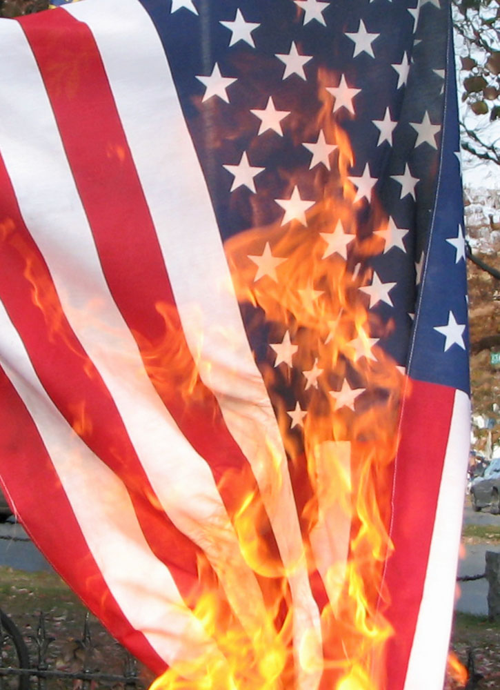 United States flag being burnt in protest, in New Hampshire on the eve of the 2008 election. References for this description (or part of this) or for the depiction in the file are not provided.